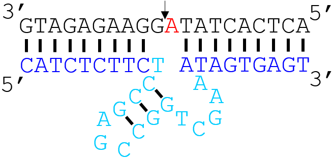 The proposed secondary structure of the 17E Pb2+-selective DNAzyme in the trans-form (two stranded). The blue strand is the enzyme strand, the black strand is the substrate strand, the red base denotes the ribonucleotide, the cyan denotes the catalytic core, and the arrow denotes the cleavage site.